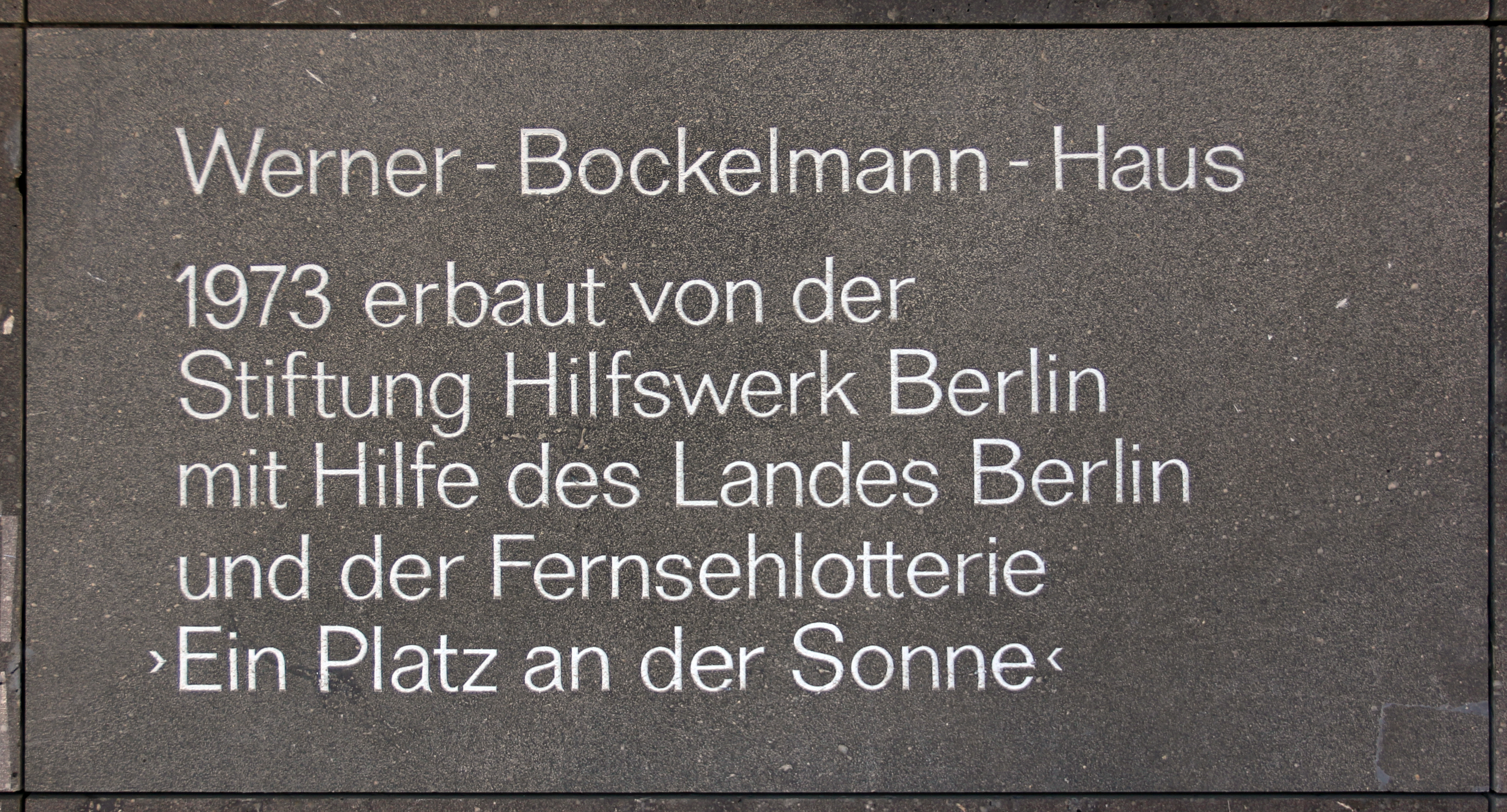 Memorial plaque, Werner Bockelmann, Bundesallee 49, Berlin-Wilmersdorf, Germany